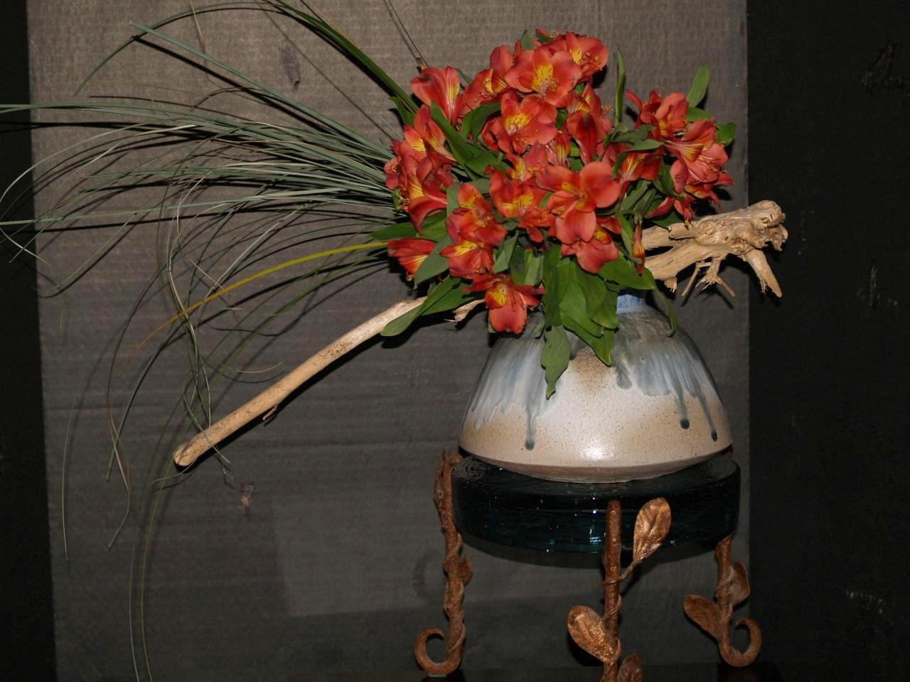 11. Hashibana Maru in Shoshin pottery classic container made for Banmi Shofu with fiery orange Astromelia, Bear Grass and St. John’s River driftwood on an adapted glass candle holder and wrought iron stand. By Ric Bansho Carrasco, 2010 created live for the Tampa Garden Club demonstration